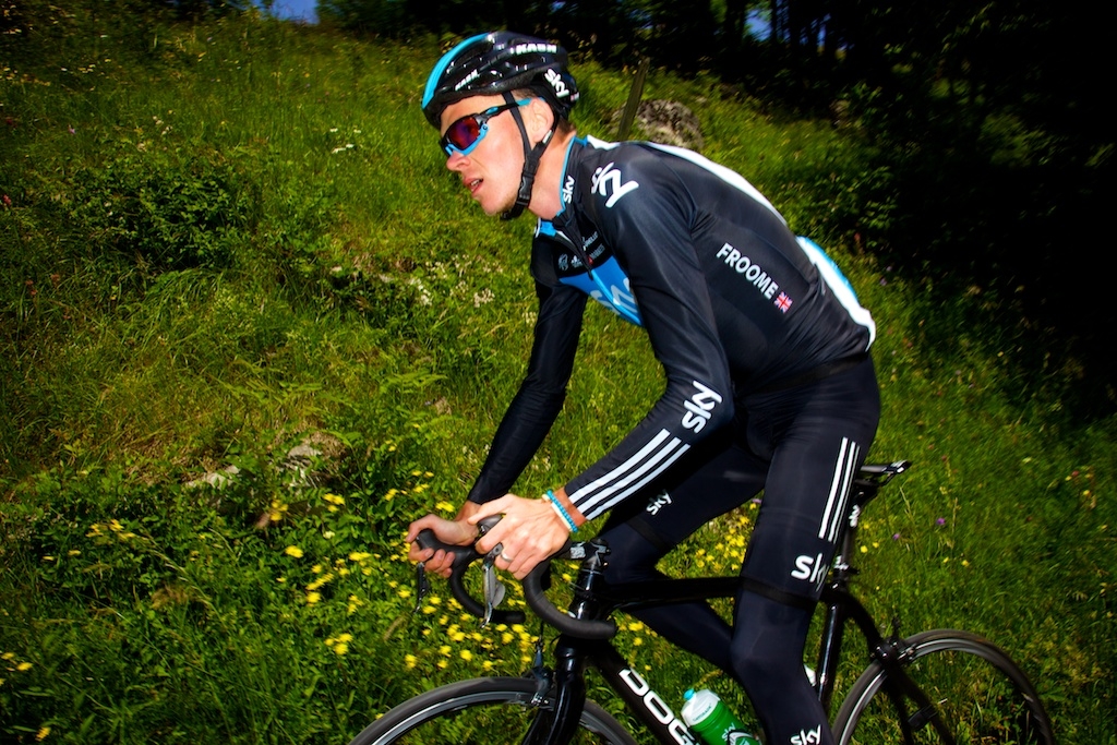 Professional Cyclist Chris Froome (Team Sky) 2012